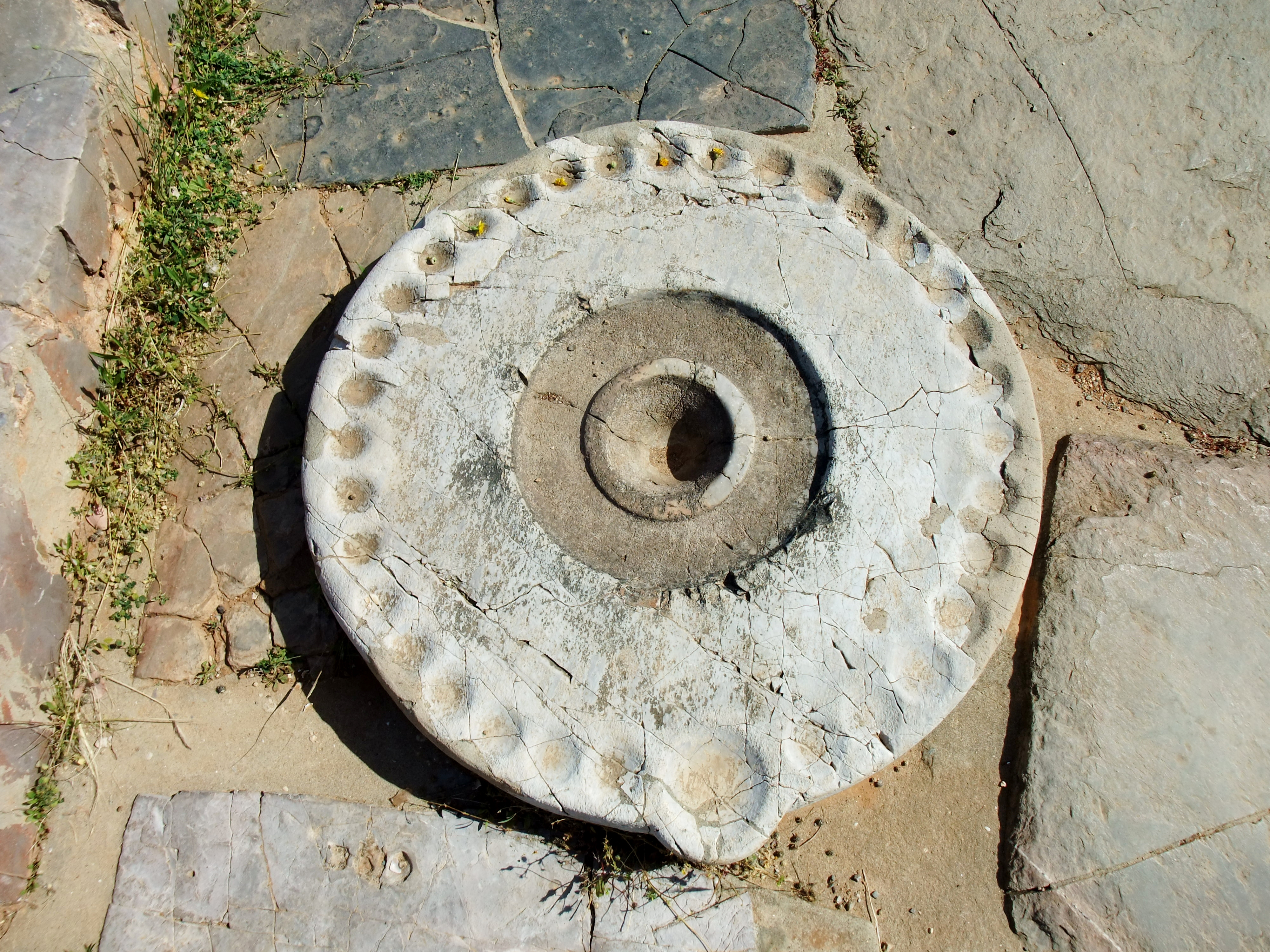 Sacrificial offering table (Kernos) - achaelogical site: Minoan Palace of Malia, Crete, Greece